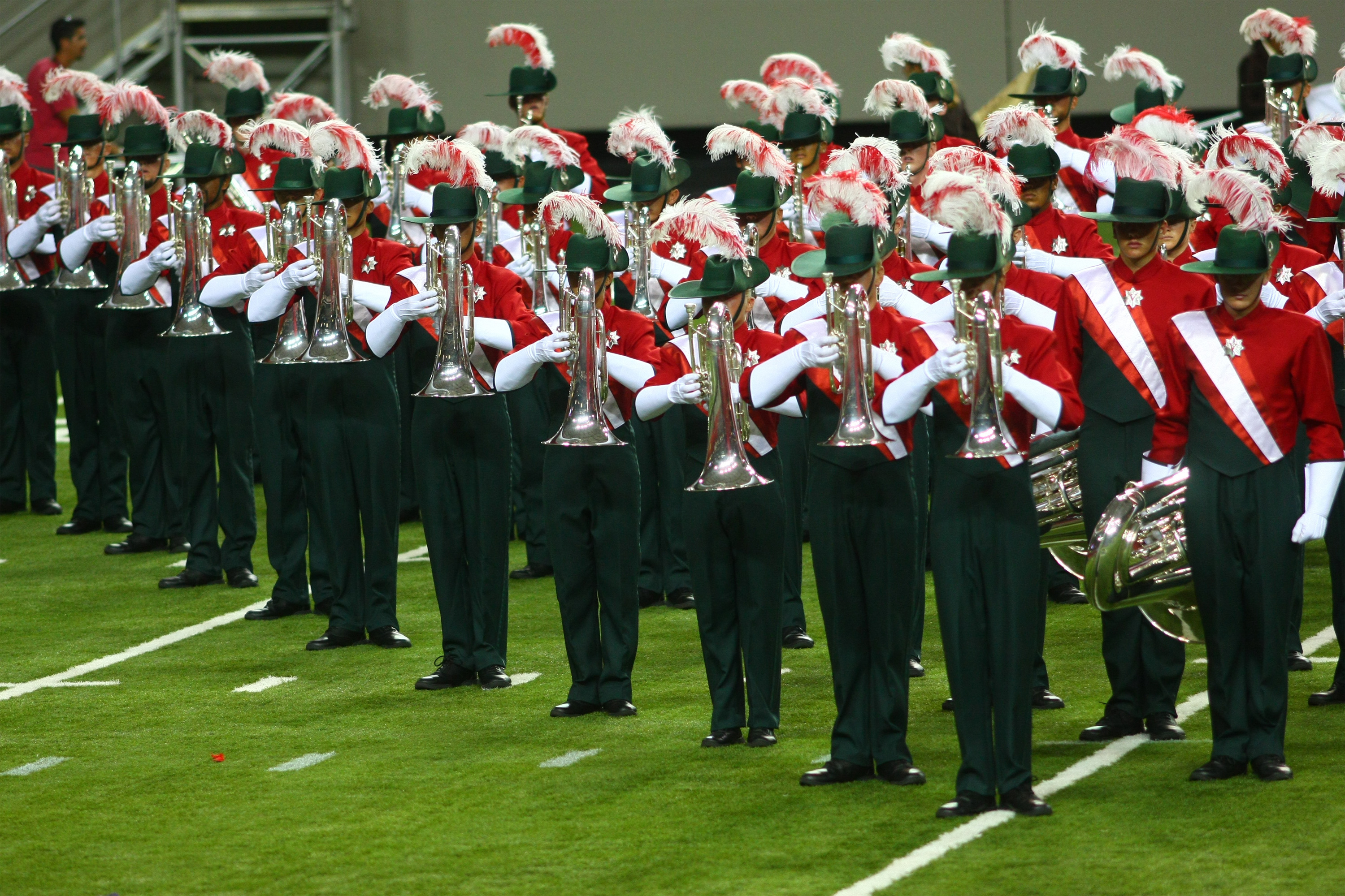 The Santa Clara Vanguard, 7/26/08.